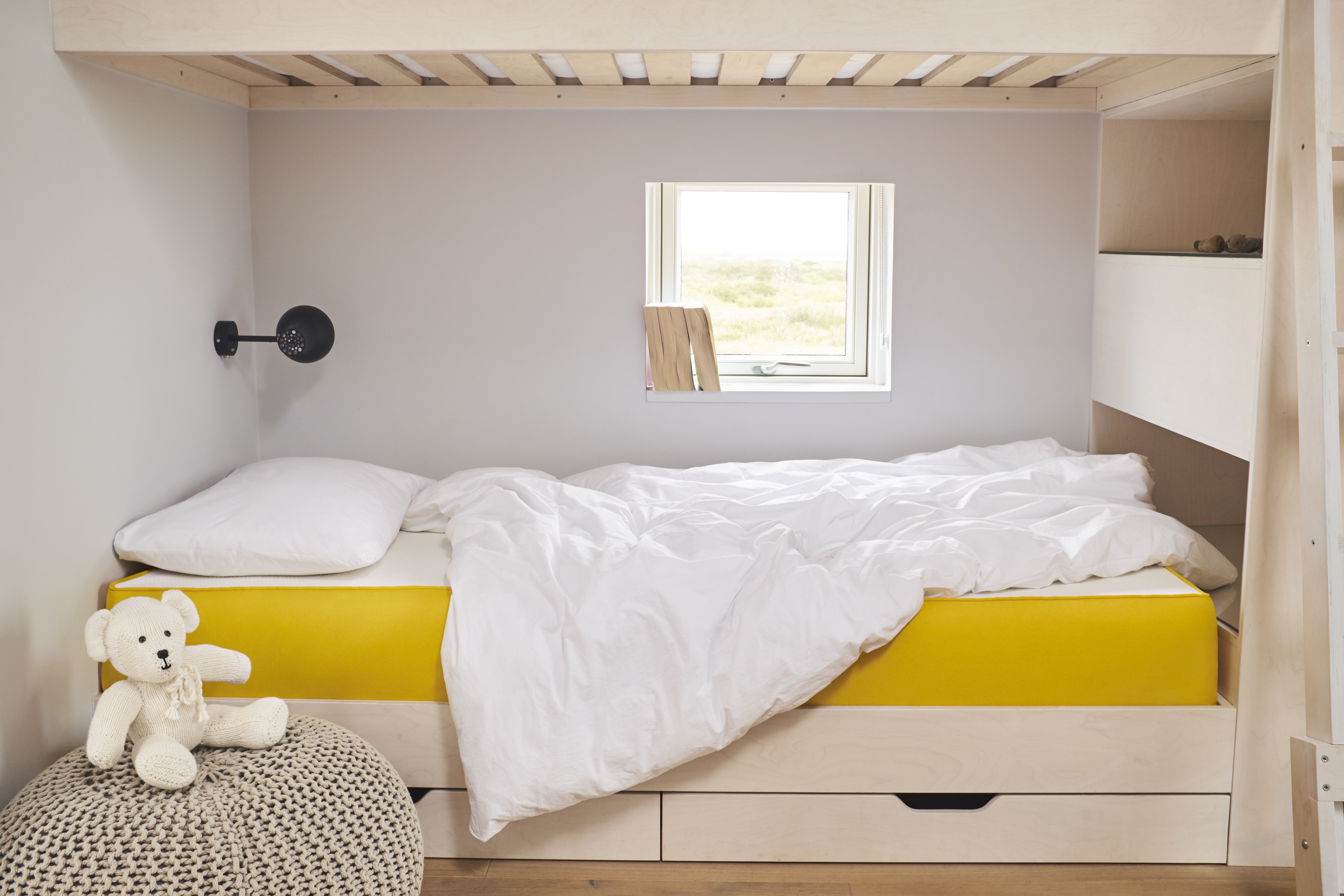 Eve Sleep mattress in a child's bedroom